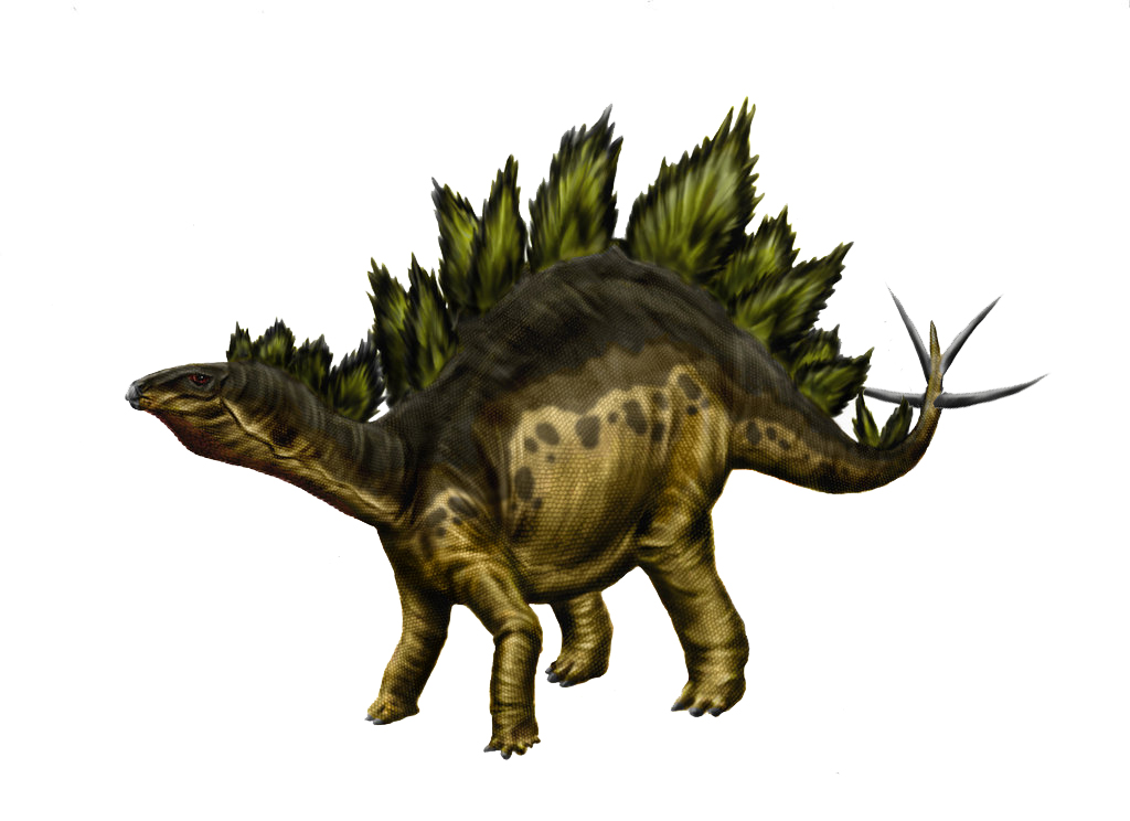 An illustration of Stegosaurus ungulatus showing it with speculative keratin spines on its plates.